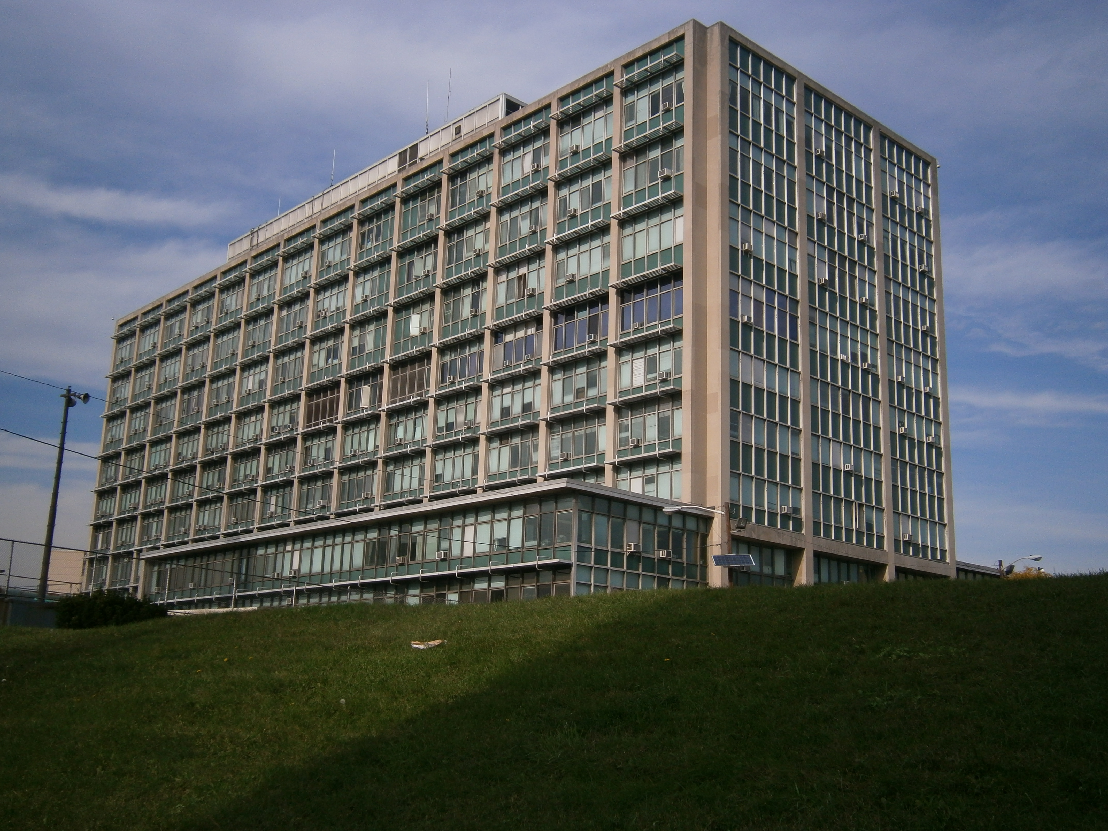 Hudson County Administration Building (595 Newark Avenue) as seen from Pavonia Avenue